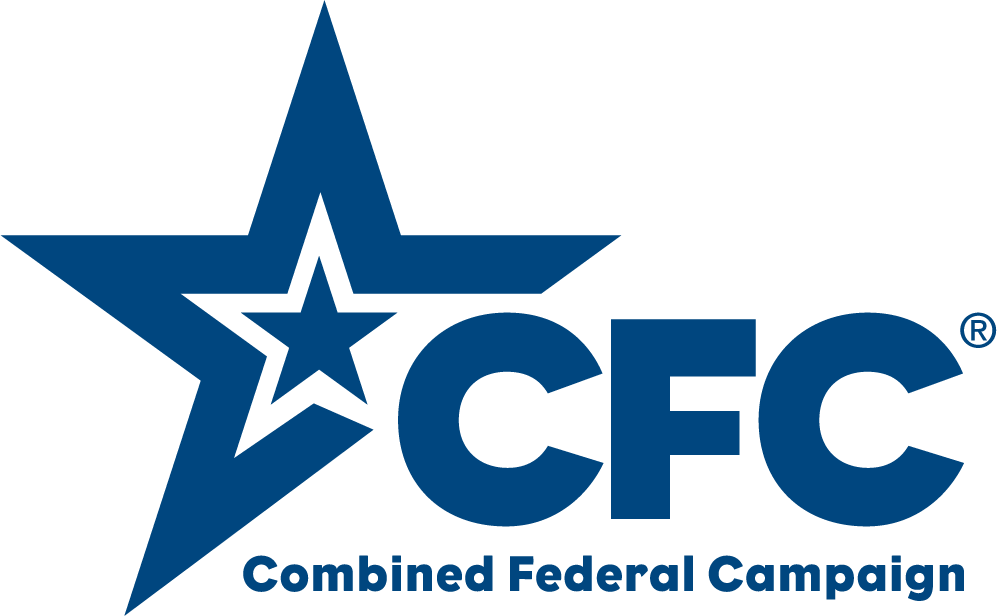 Logo of the OPM Combined Federal Campaign